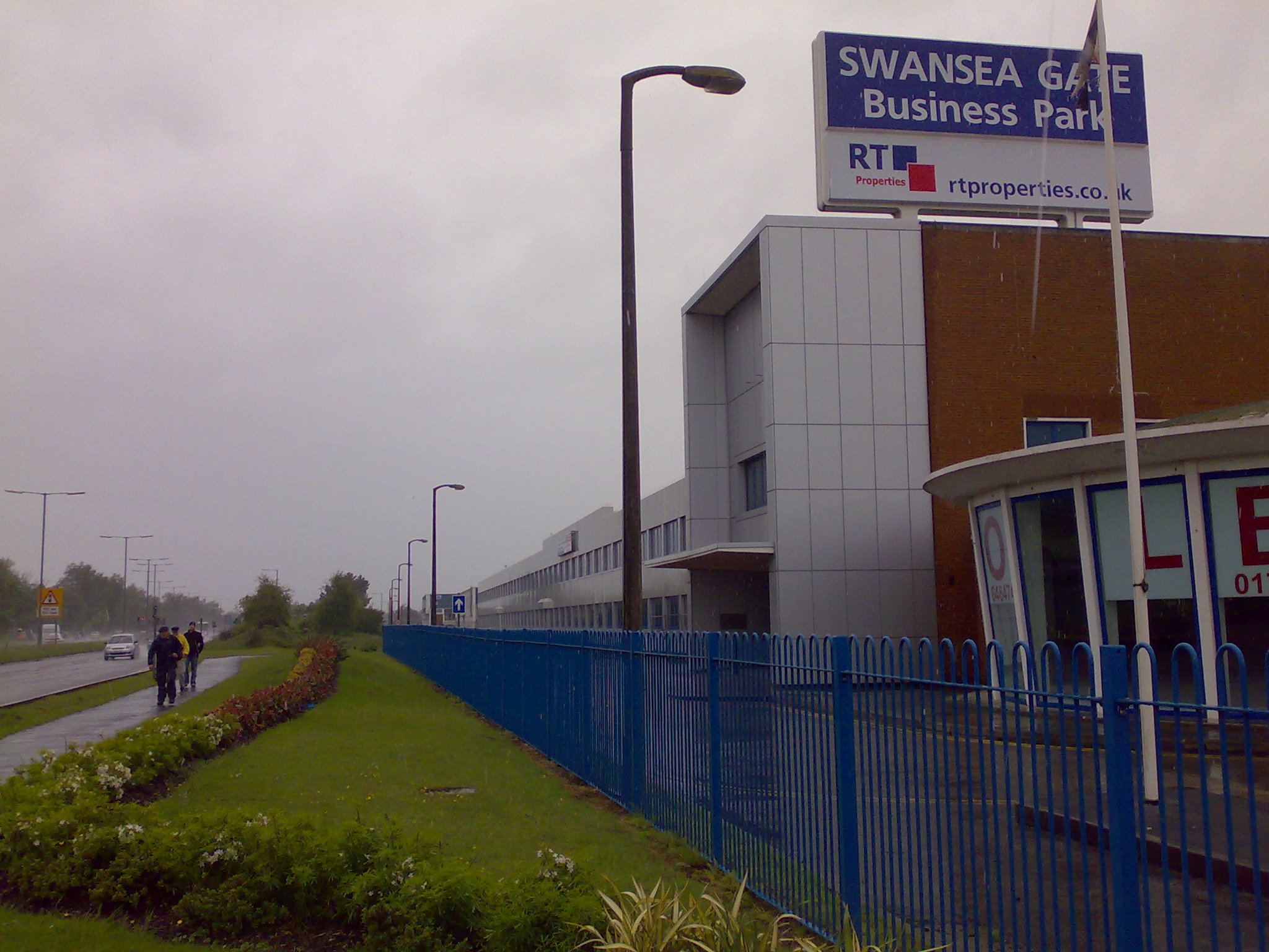 The Linamar auto parts factory in Swansea, Wales